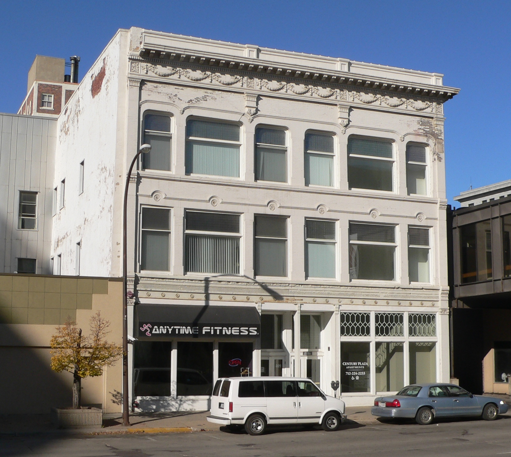 Building at 409-411 Nebraska Street in Sioux City, Iowa; seen from the southeast. The building was part of the T. S. Martin and Co. department store.